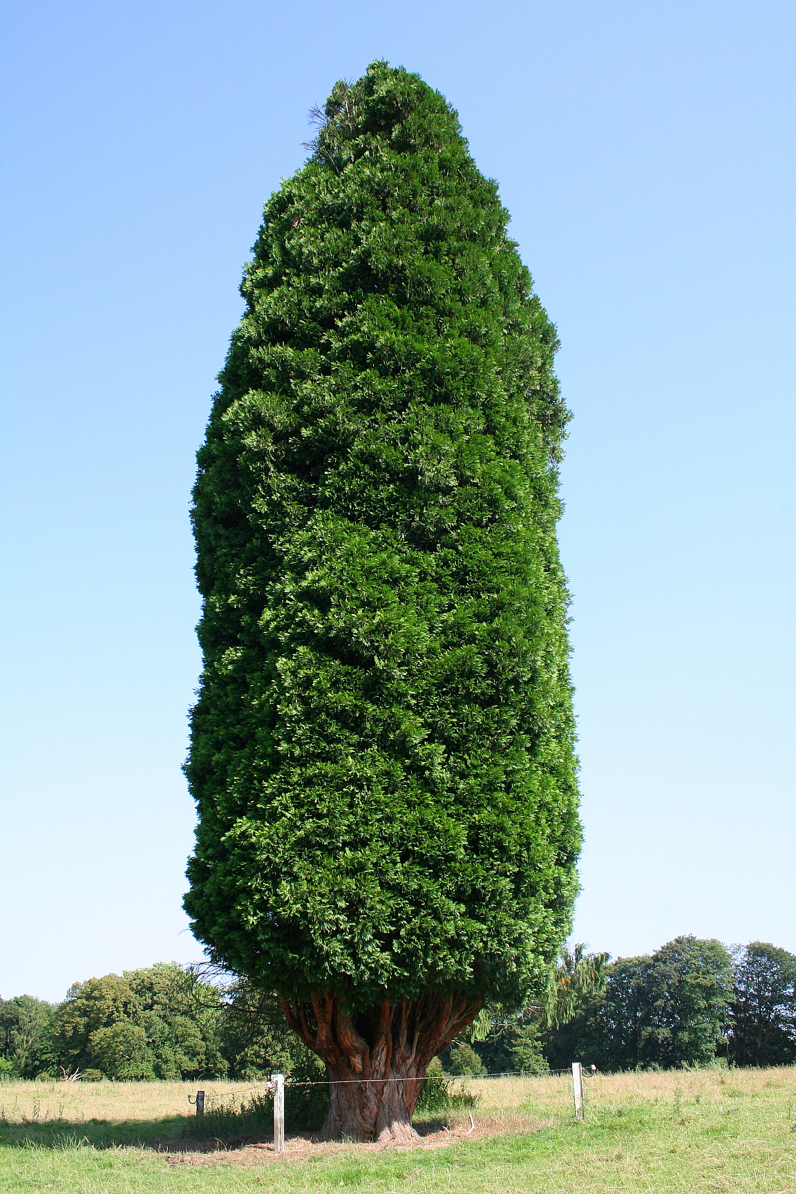 Incense cedar (Calocedrus decurrens).